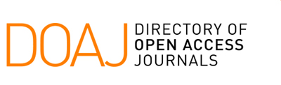 DOAJ's logo